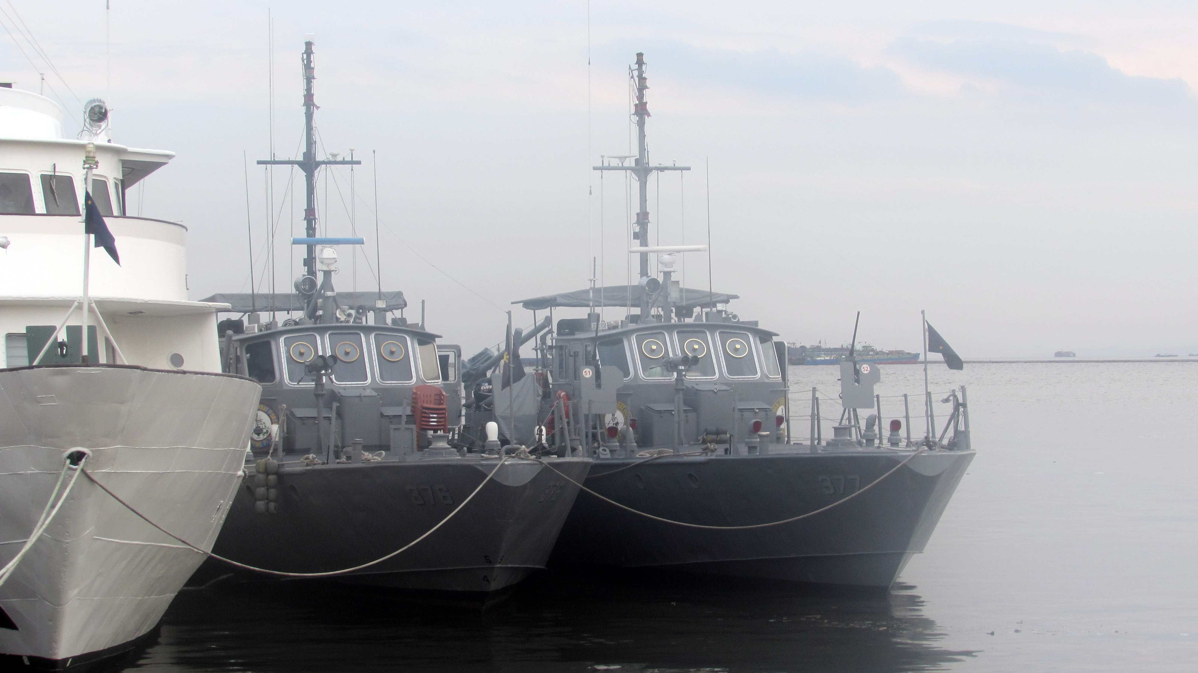 The PG-377 BRP Liberato Picar and PG-376 BRP Heracleo Alano Andrada-class Patrol Boats of the Philippine Navy. Photo taken at Pier 13 of the Manila South Harbor.